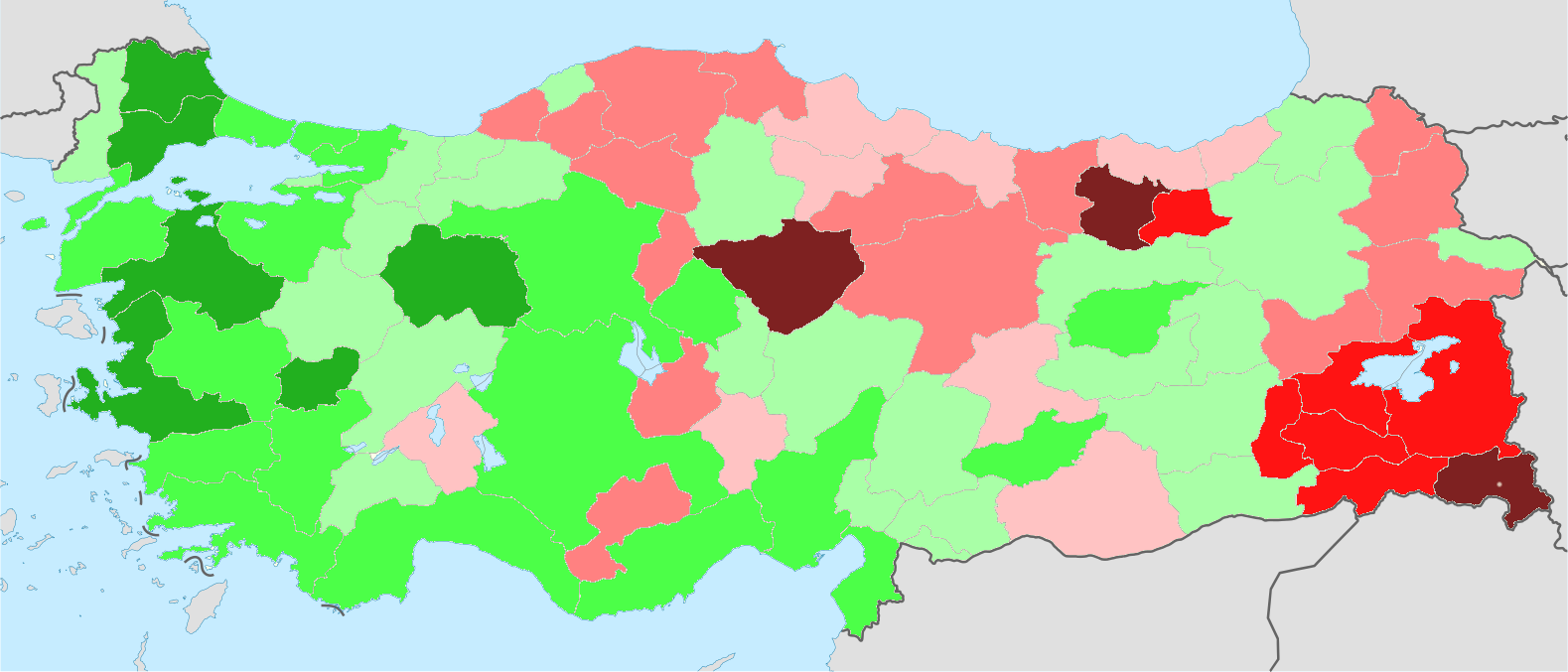 Turkstat